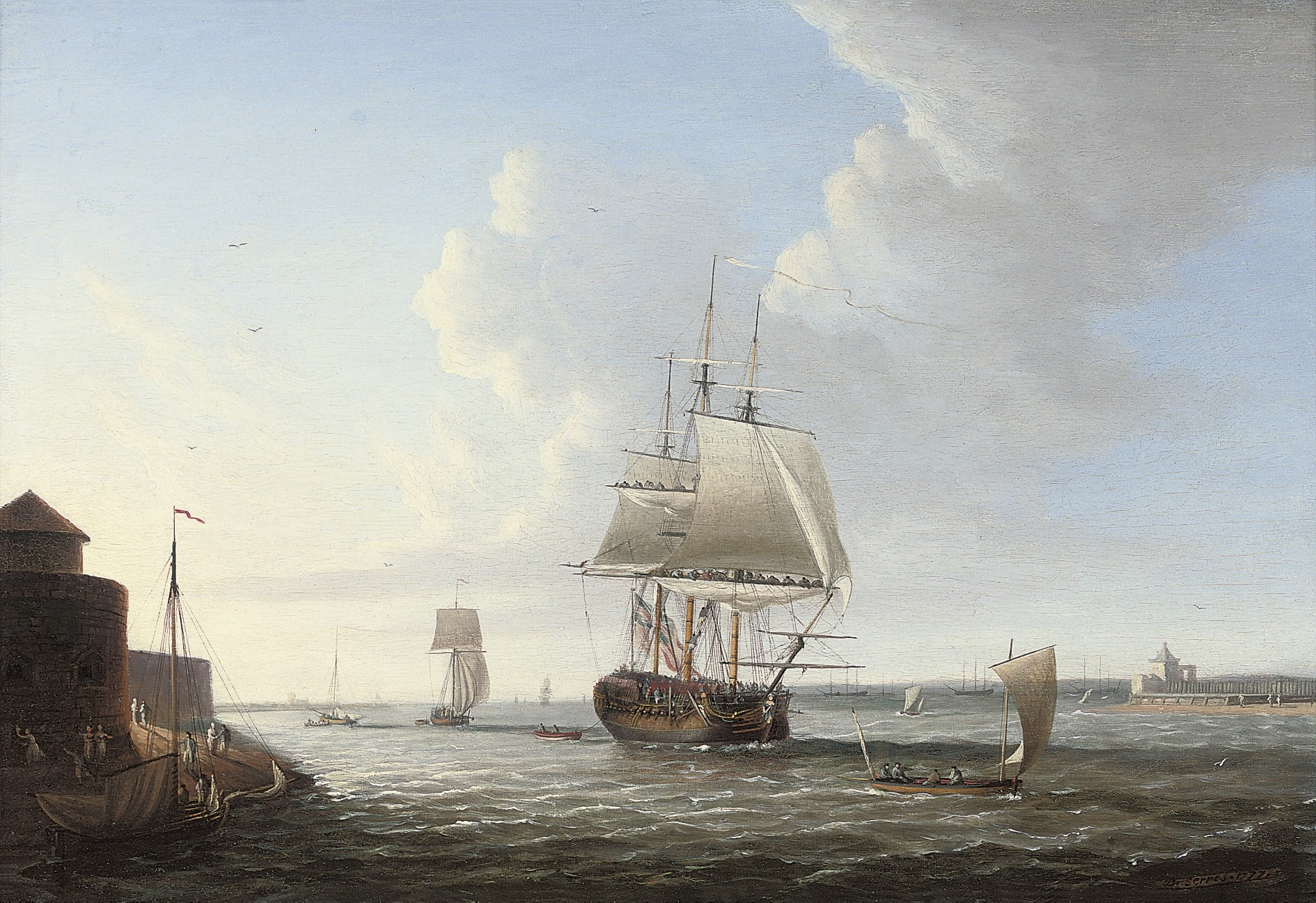 An English man-o'war shortening sail entering Portsmouth harbour, with Fort Blockhouse off her port quarter